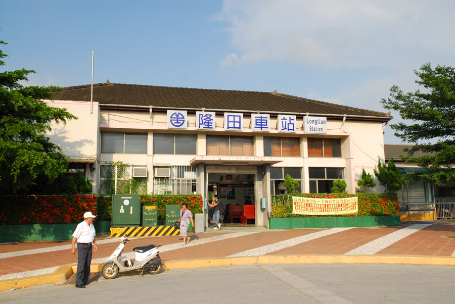 Longtian Station is a local train station of Taiwan's Western main rail line. It's the main station of Guantian Township, Tainan County, and is among the few stations having names different from their local administration entities.